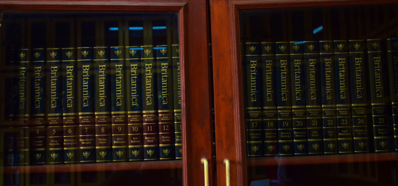 Encyclopedia Britannica in the library of The Kings School, Goa